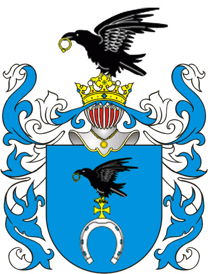 Herb Slepowron Clan File:Slepowron.svg is a vector version of this file. It should be used in place of this raster image when not inferior. File:Herb Slepowron.jpg File:Slepowron.svg For more information, see Help:SVG. In other languages